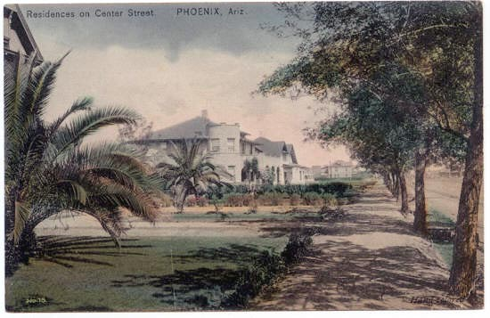 Center Street, today known as Central Avenue in Phoenix showing stately homes in 1908